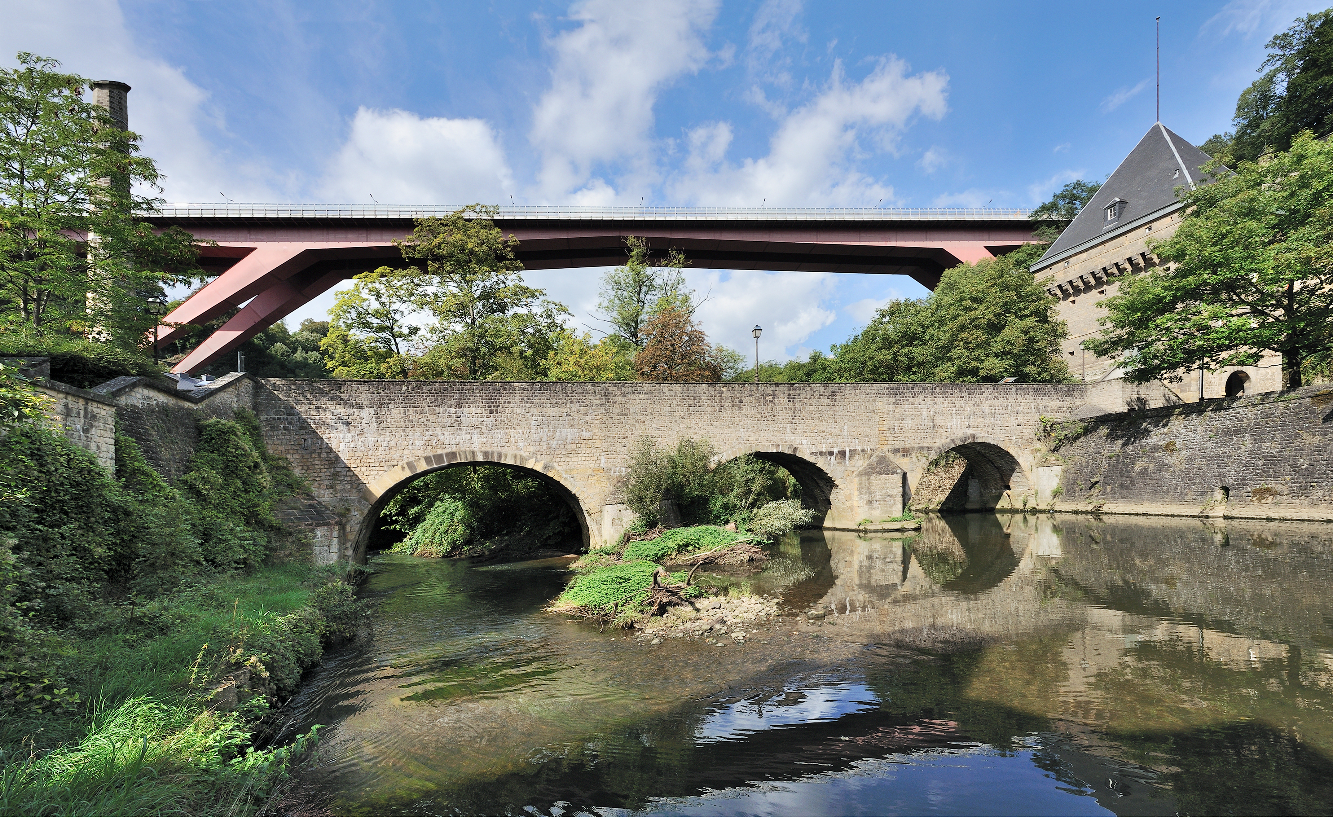 Luxembourg City, Pfaffenthal, two bridges. (1) the bridge called Béinchen, erected around 1786, part of the defensive walls of the ancient Luxembourg fortress. (2) Grande-Duchesse-Charlotte-Bridge, inaugurated in 1965. In the foreground: the Alzette river. The place shown is part of a World Heritage Site.